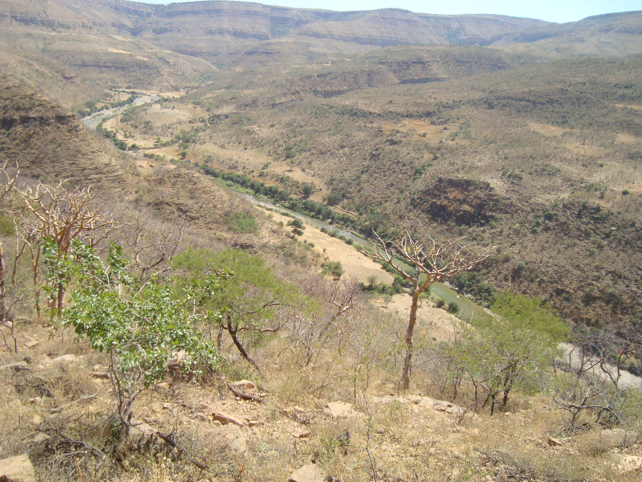 Giba gorge